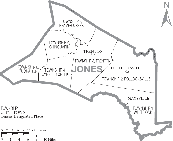 Map of Jones County, North Carolina, United States with township and municipal boundaries